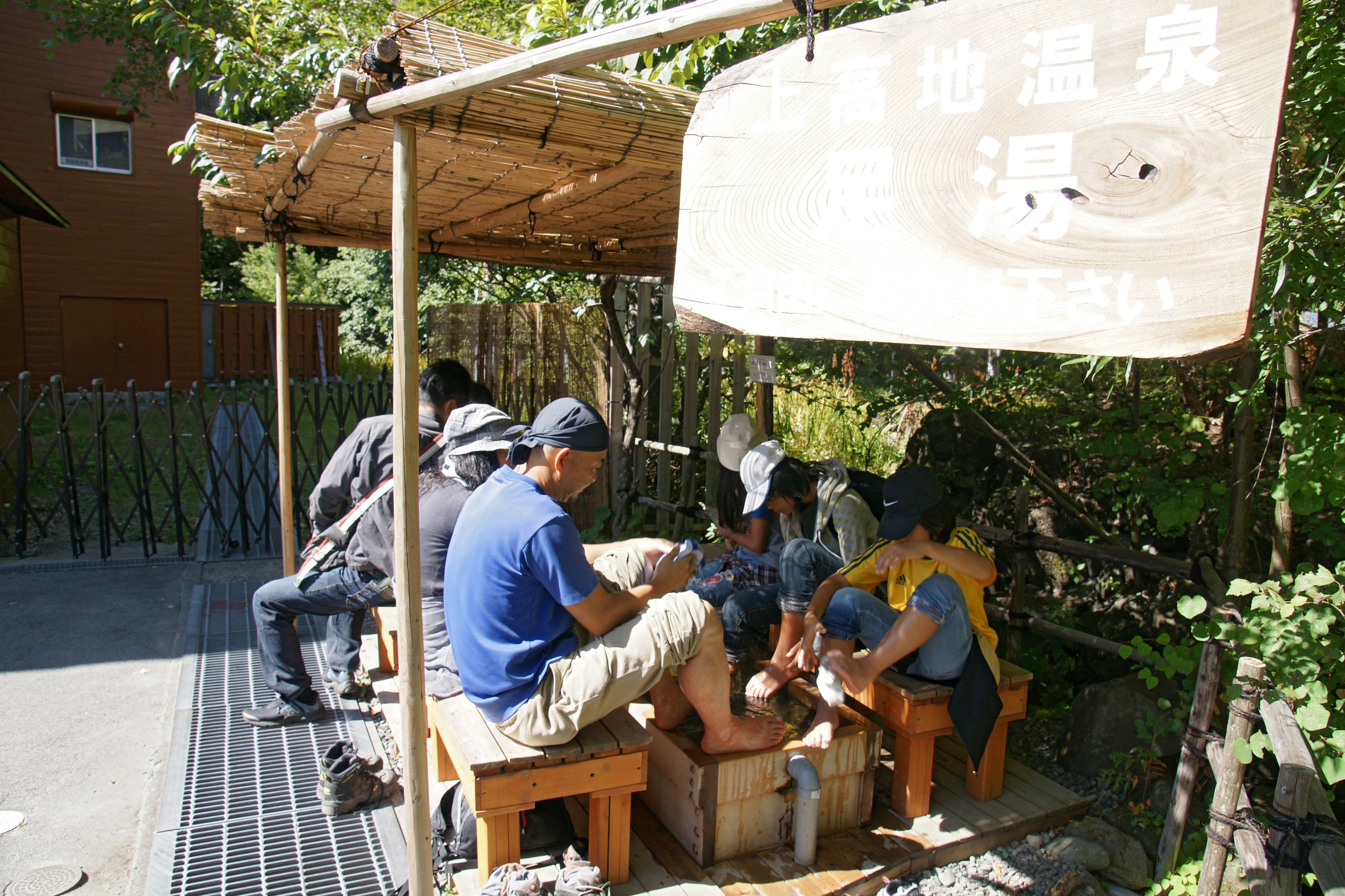 Kamikochi Onsen Hotel in Kamikochi, Matsumoto, Nagano prefecture, Japan